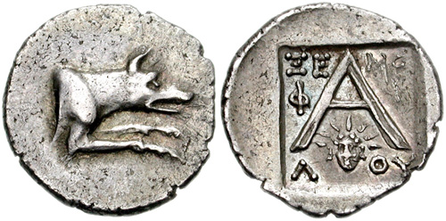 Greek coin from ARGOLIS, Argos,90 BC Greek coin depicting Wolf / Helis with ΞΕΝΟΦΥΛΟΥ inscription